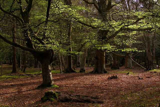 Beech trees in Mallard Wood, New Forest Mallard Wood lies to the south of the A35 road, mid-way between Lyndhurst and Ashurst. The open woodland is grazed by commoners' stock and wild deer, hence the lack of lower branches and ground cover. Here the late afternoon sun is illuminating new leaves on these beech trees.